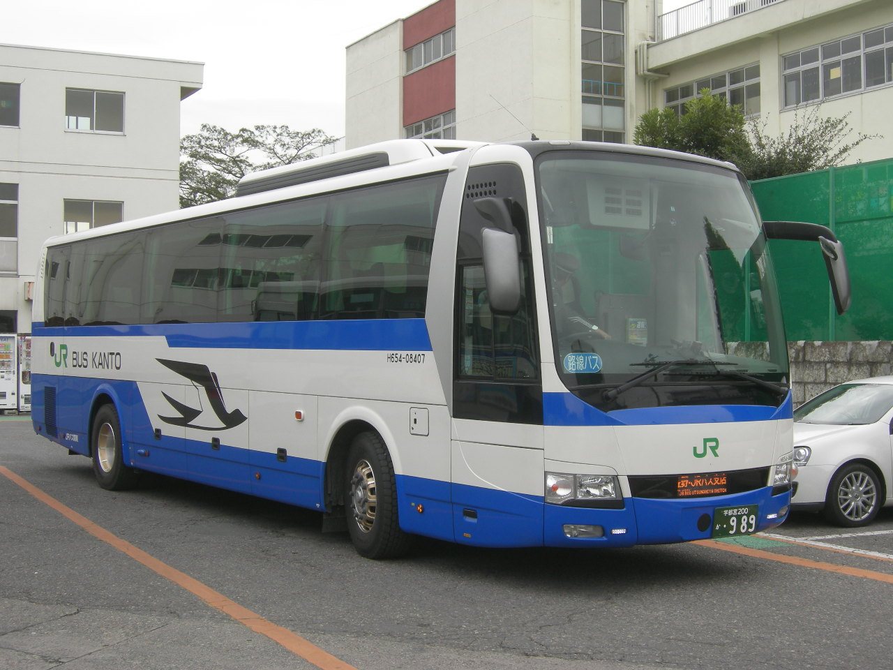 JR bus Kanto highwaybus Maronie Shinjuku（Shinjuku-Utsunomiya）.MitsubishiFuso Aeroace（BKG-MS96JP）